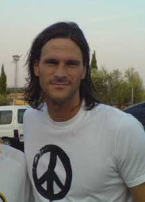 Leo Franco, Argentinian footballer (image has been cropped)